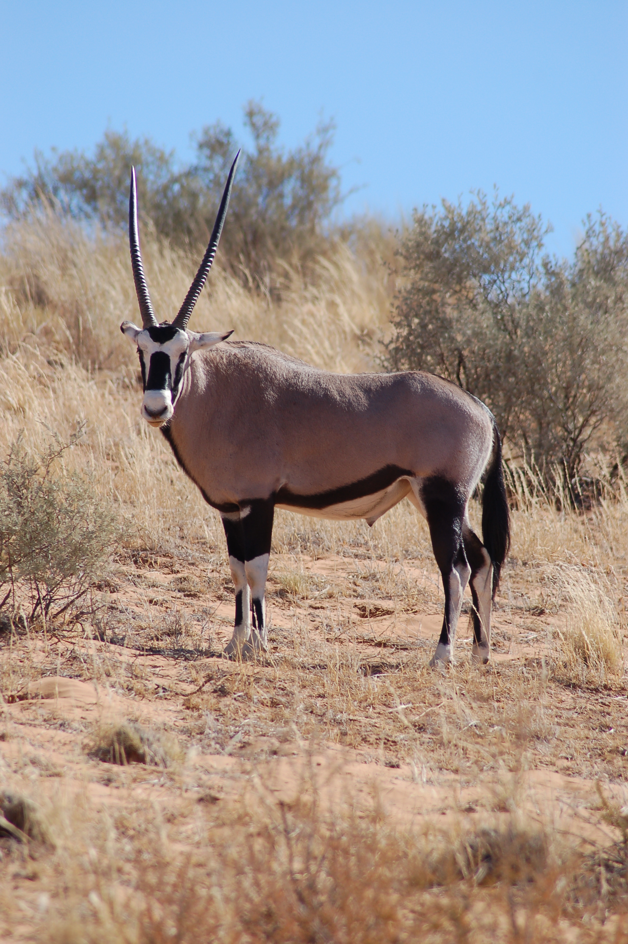 Kgalagadi National Park, South Africa